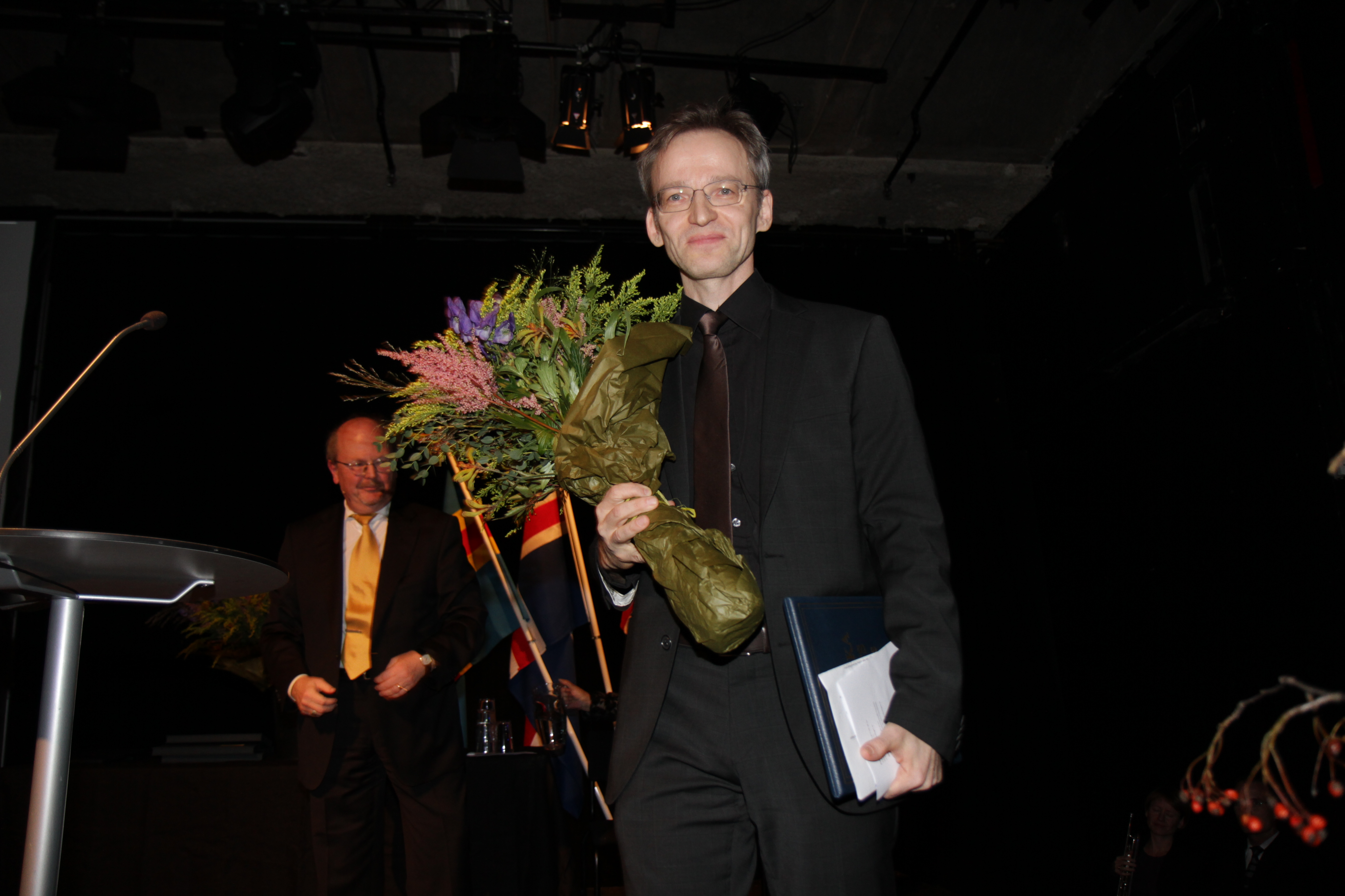 Kari Kriikku, a Finnish clarinetist and the winner of the Nordic Council Music Prize 2009 in Stockholm.